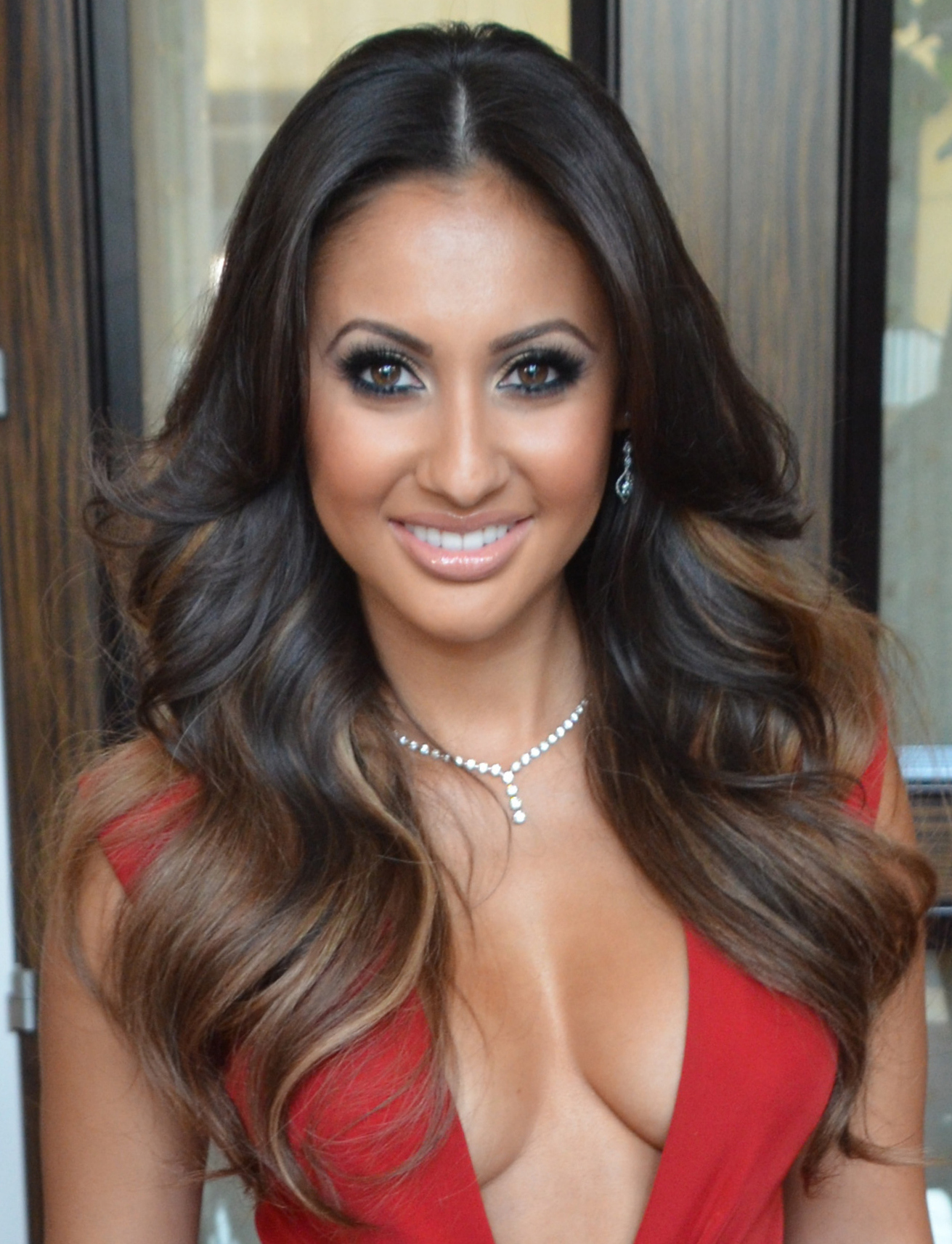 Francia Raisa at the 27th Annual Imagen Awards Red Carpet 2012.